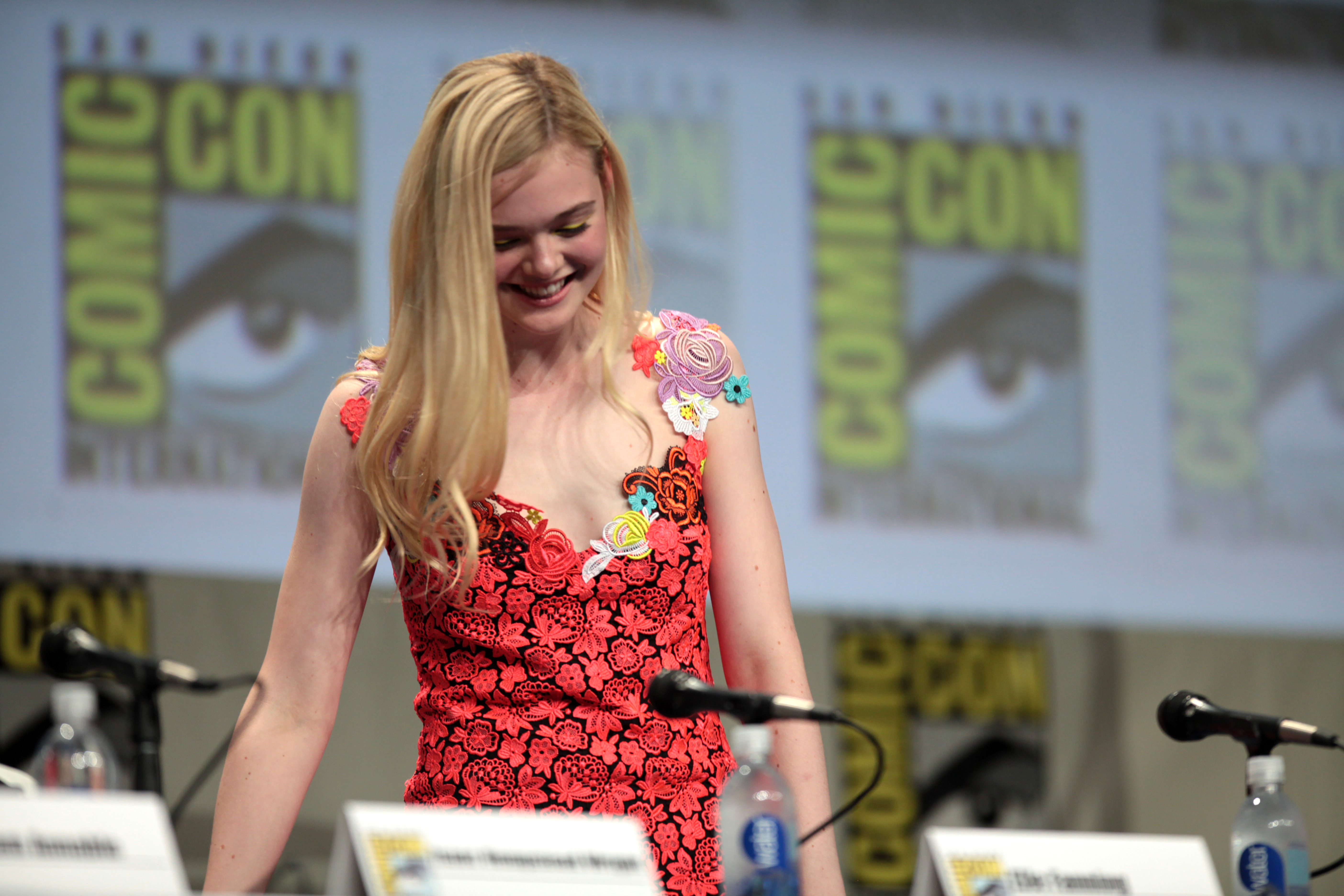 Elle Fanning speaking at the 2014 San Diego Comic Con International, for "The Boxtrolls", at the San Diego Convention Center in San Diego, California.